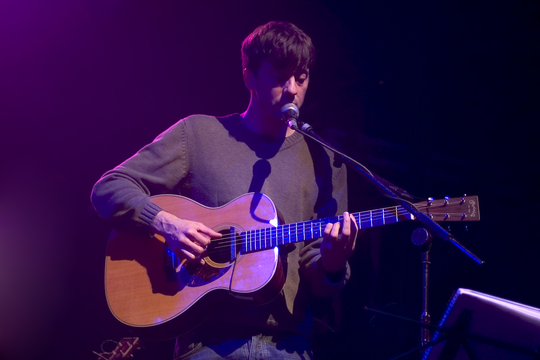 Graham Coxon (Formally from Blur) playing support with John McCusker at Celtic Connections 2007